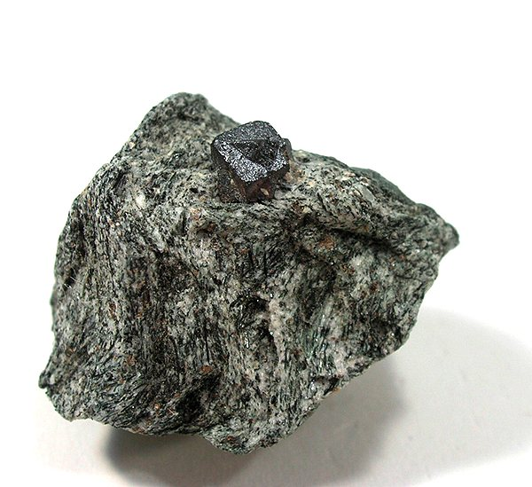 Loparite-(Ce) Locality: N'orkpakhk (Niorkpakhk; Nyorkpukhk; N'Yourpakhk) Mt, Khibiny Massif, Kola Peninsula, Murmanskaja Oblast', Northern Region, Russia (Locality at ) Size: 3.1 x 2.4 x 2 cm. A relatively large, sharp, 6 mm, twinned loparite crystal from what is certainly the most significant modern locale for the species.